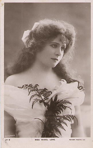 Rotary Postcard of British actress Mabel Love